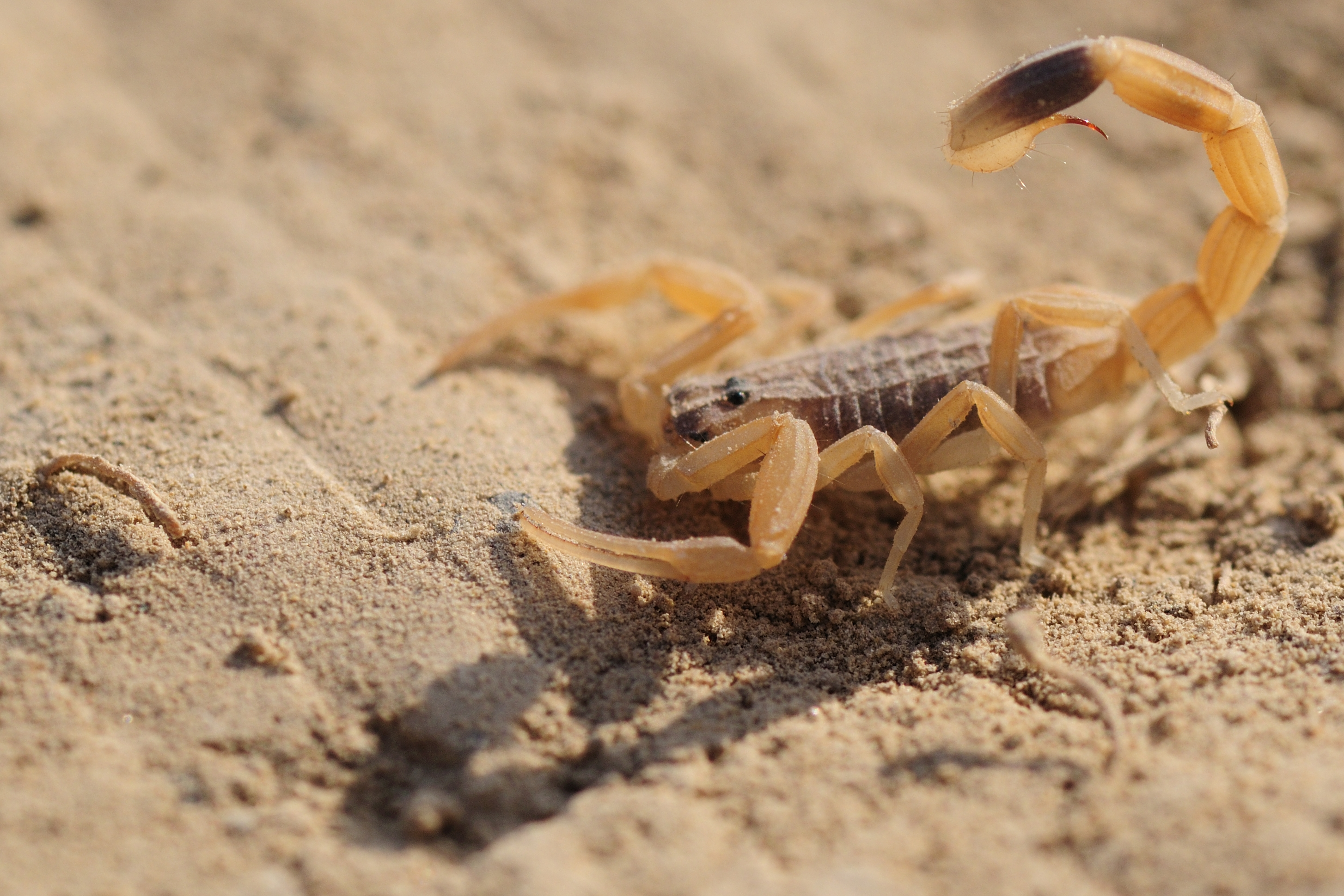 Determination by Benutzer:Accipiter